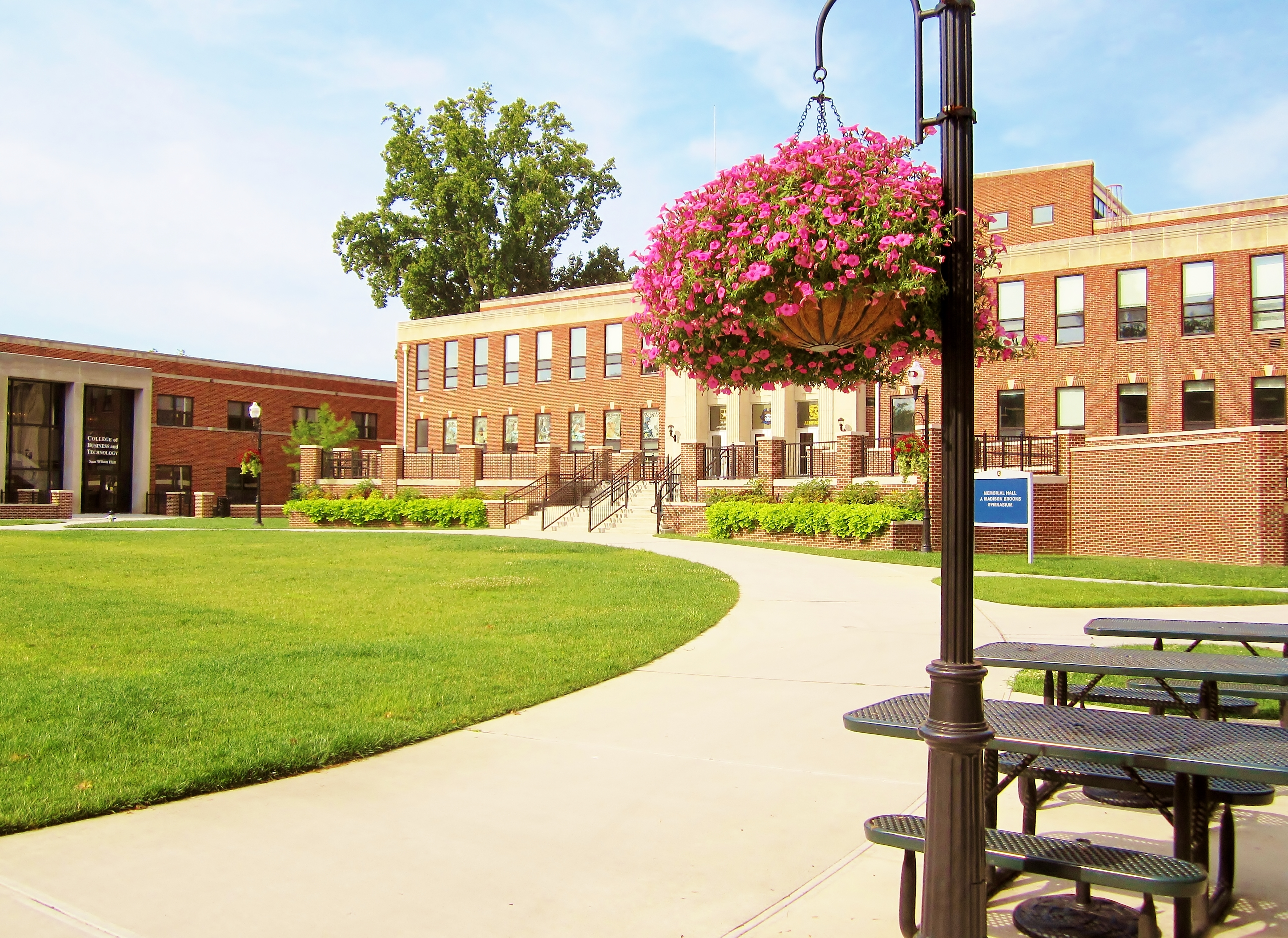 ETSU Gym